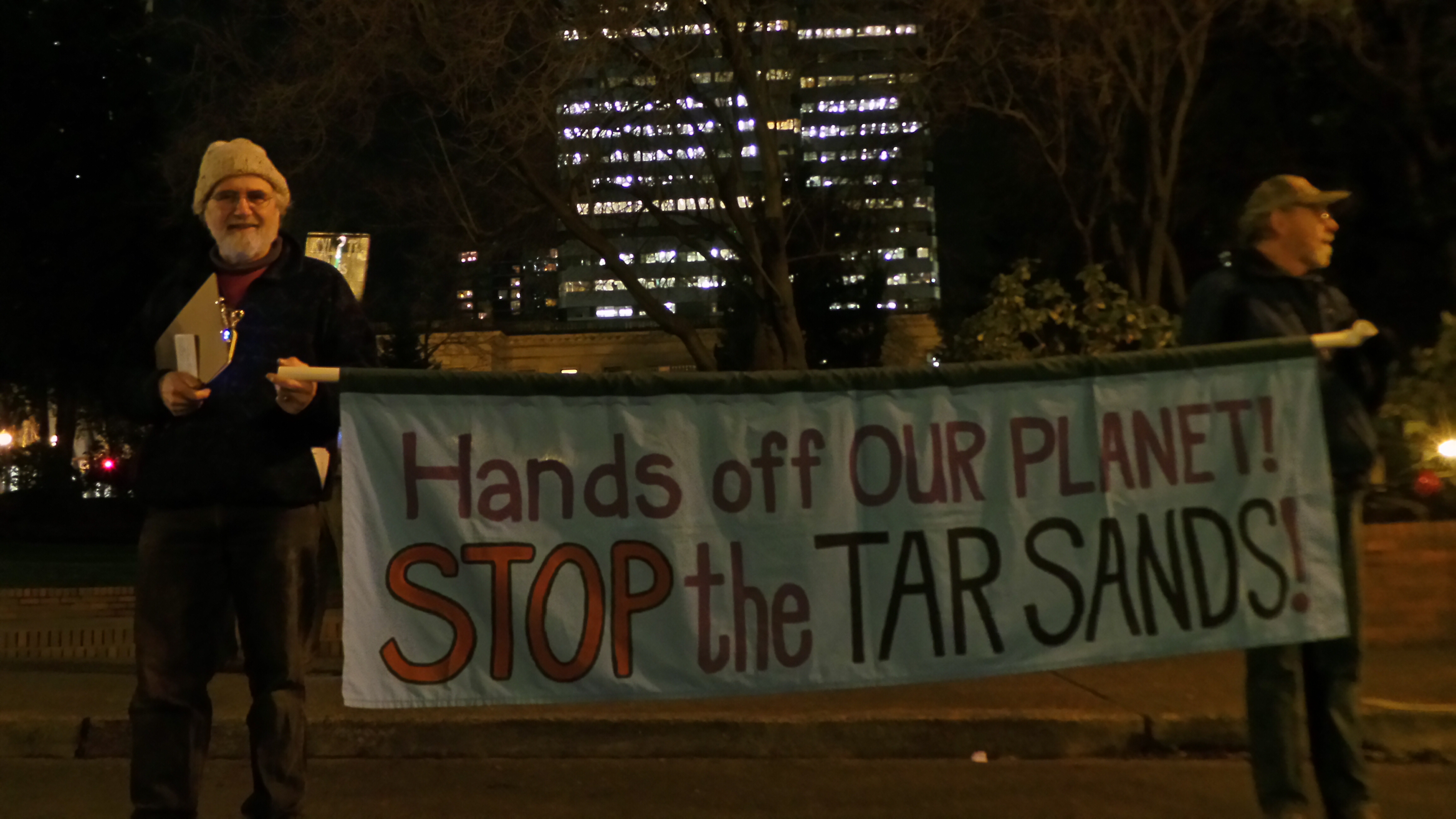 Concerned people hold a candle light vigil in a response opposing the Keystone XL Pipeline. They urge President Barack Obama to prevent the Keystone XL pipline from being developed. There is general concern among protesters that the pipeline contributes to harmful practices such as tar sands oil extraction that are injecting unprecedented amounts of carbon dioxide (CO2) into our atmosphere. The rate of carbon dioxide emissions and the amount in our atmosphere are far in excess of any known range of natural variation.